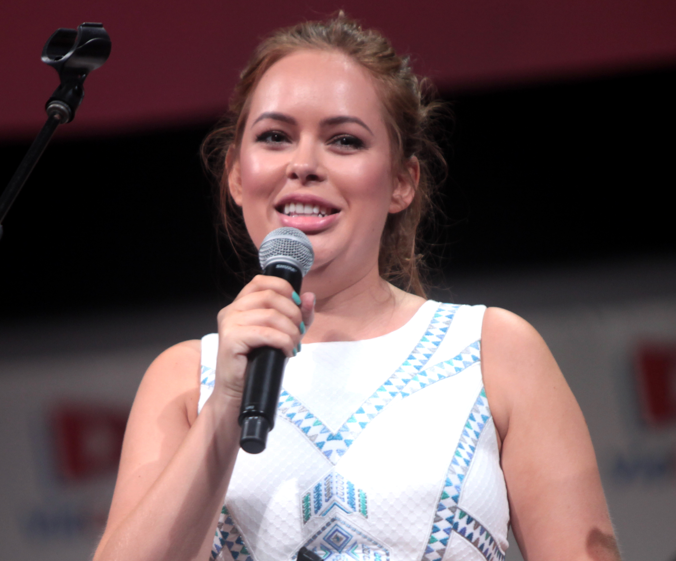 Tanya in 2014